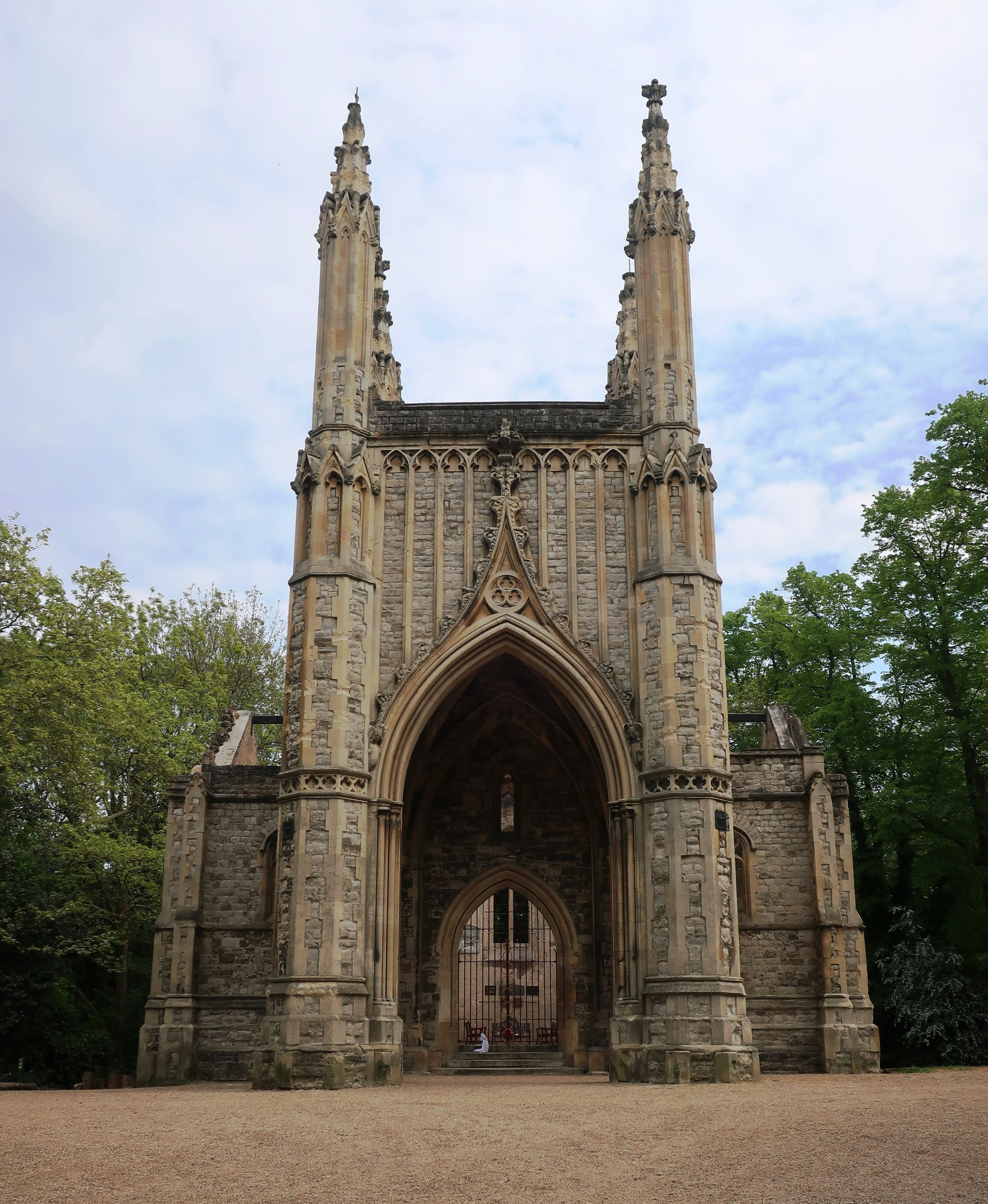 Anglican Chapel at Nunhead Cemetery, London SE15: view from the north